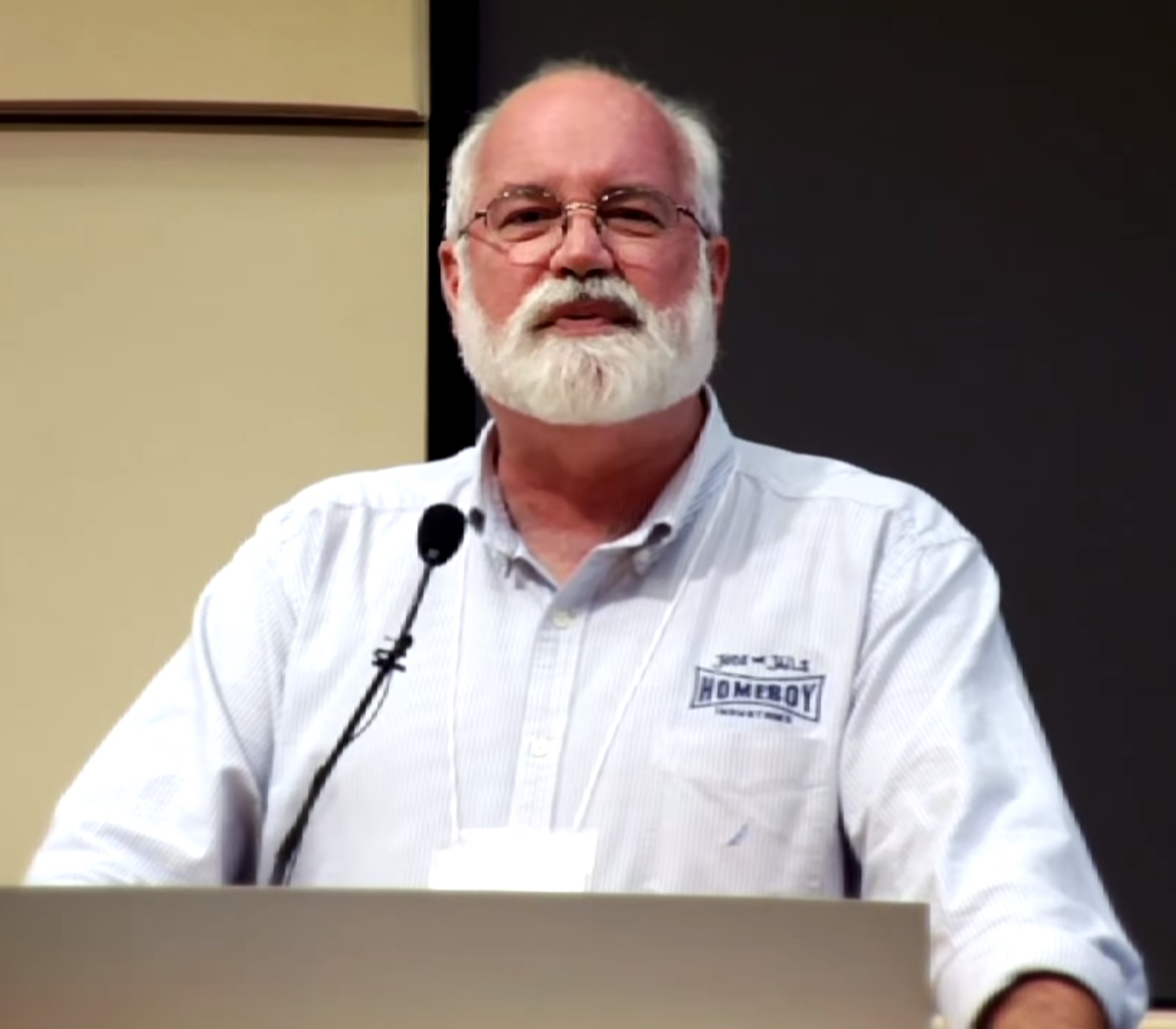 Keynote Address: Father Greg Boyle "Kinship" Father Greg Boyle, founder of Homeboy Industries, gives an inspiring address on kinship at We ♥ LA: An Urban Retreat for LA's Passionate Leaders. The event was hosted by the Durfee Foundation on October 14, 2010, on the occasion of its 50th anniversary. Fr Greg's keynote was made in tribute to the more than 300 nonprofit workers who gathered to celebrate their abiding affection for Los Angeles.